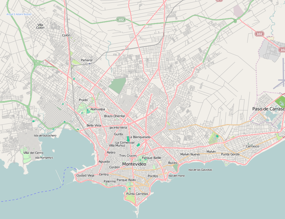 Map of Montevideo for pin Geographic limits of the map: N: -34.7795° S: -34.9388° W: -56.2815° E: -56.0294°